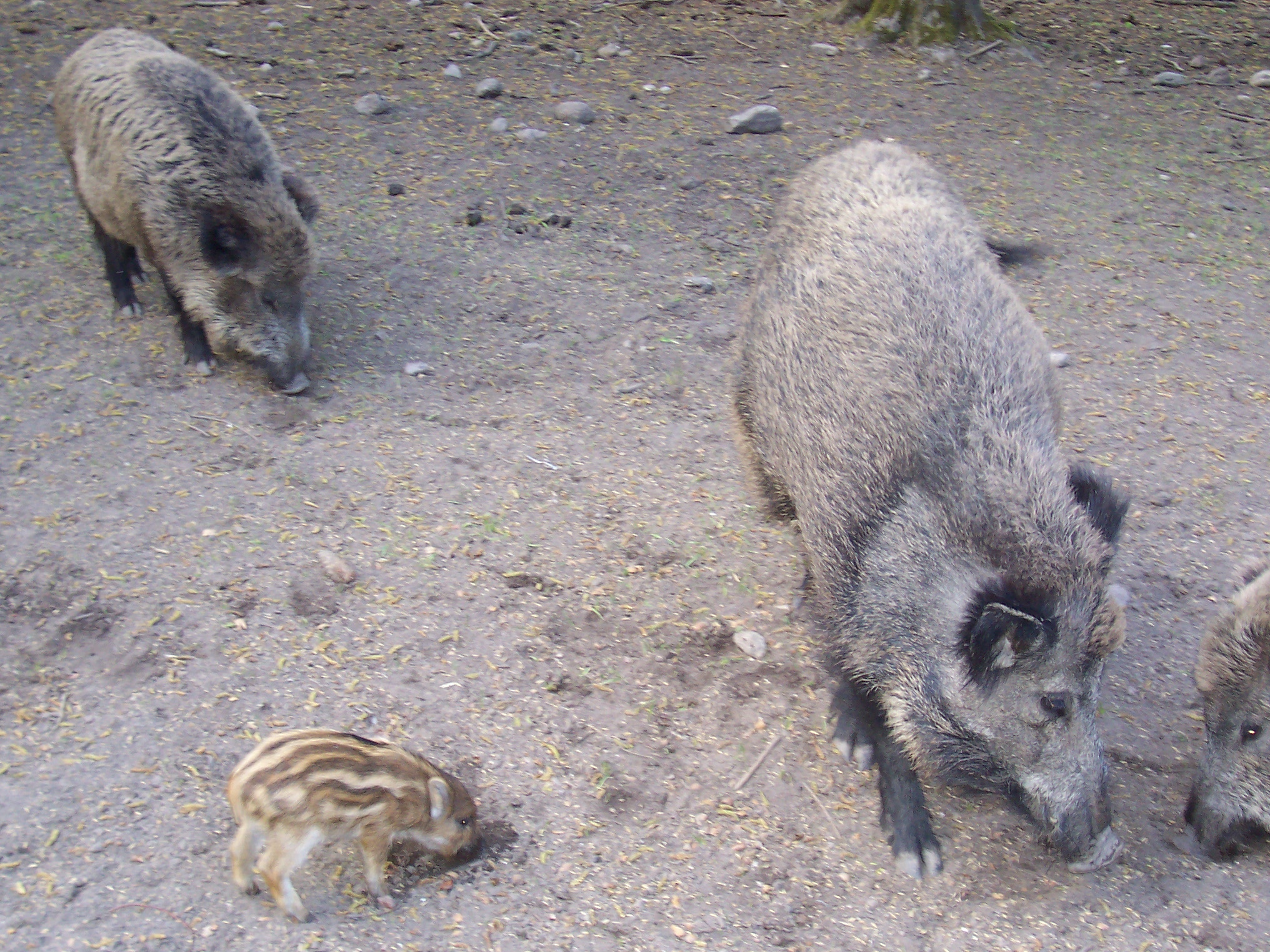 Wild boar in the wisent-reserve in Białowieża/Poland